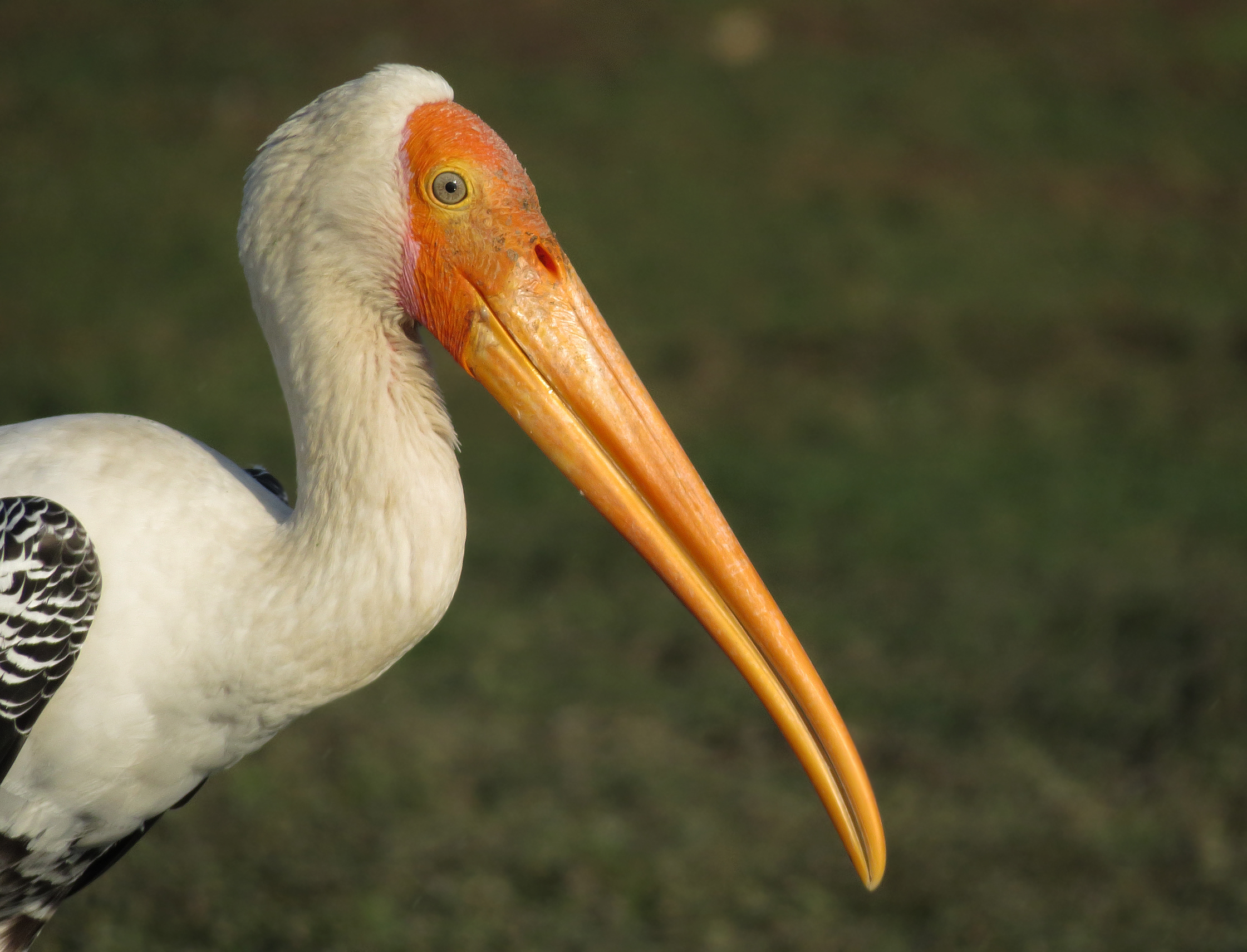 Though a commoner in India its a globally threatened species.